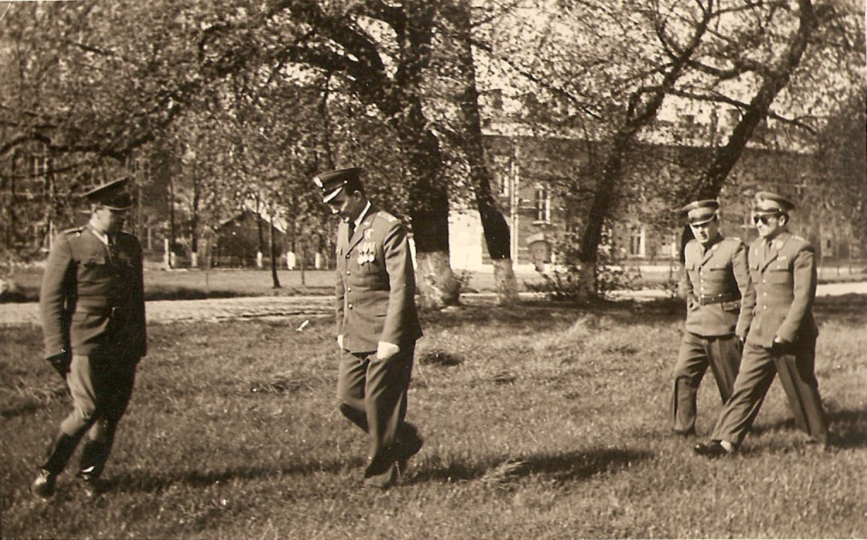 Dowódca 64.LPSz mjr pil. Kazimierz Ciepiela podczas przyjęcia meldunku od kpt. Jana Dłuskiego 1959